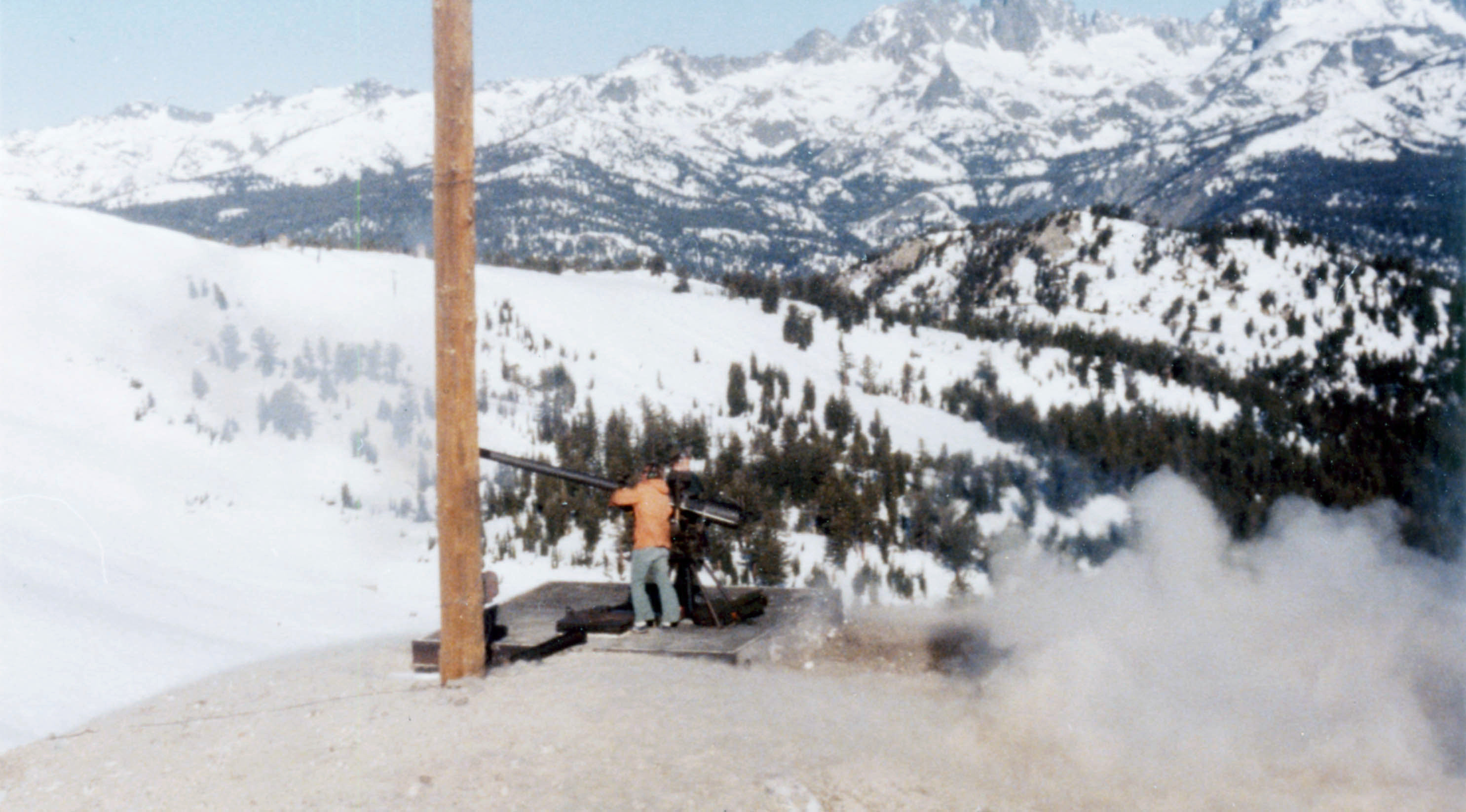 M40 106mm Recoilless Rifle used for avalanche control at Mammoth Mountain, California. Note Minarets in background.